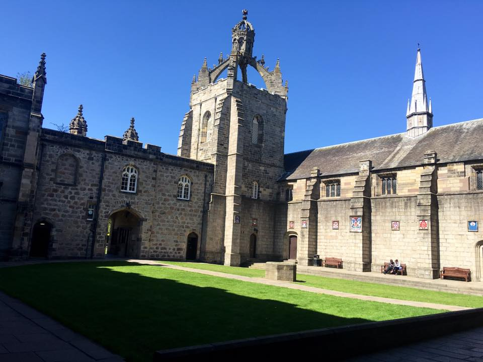 Quadrangle of King's College, Aberdeen